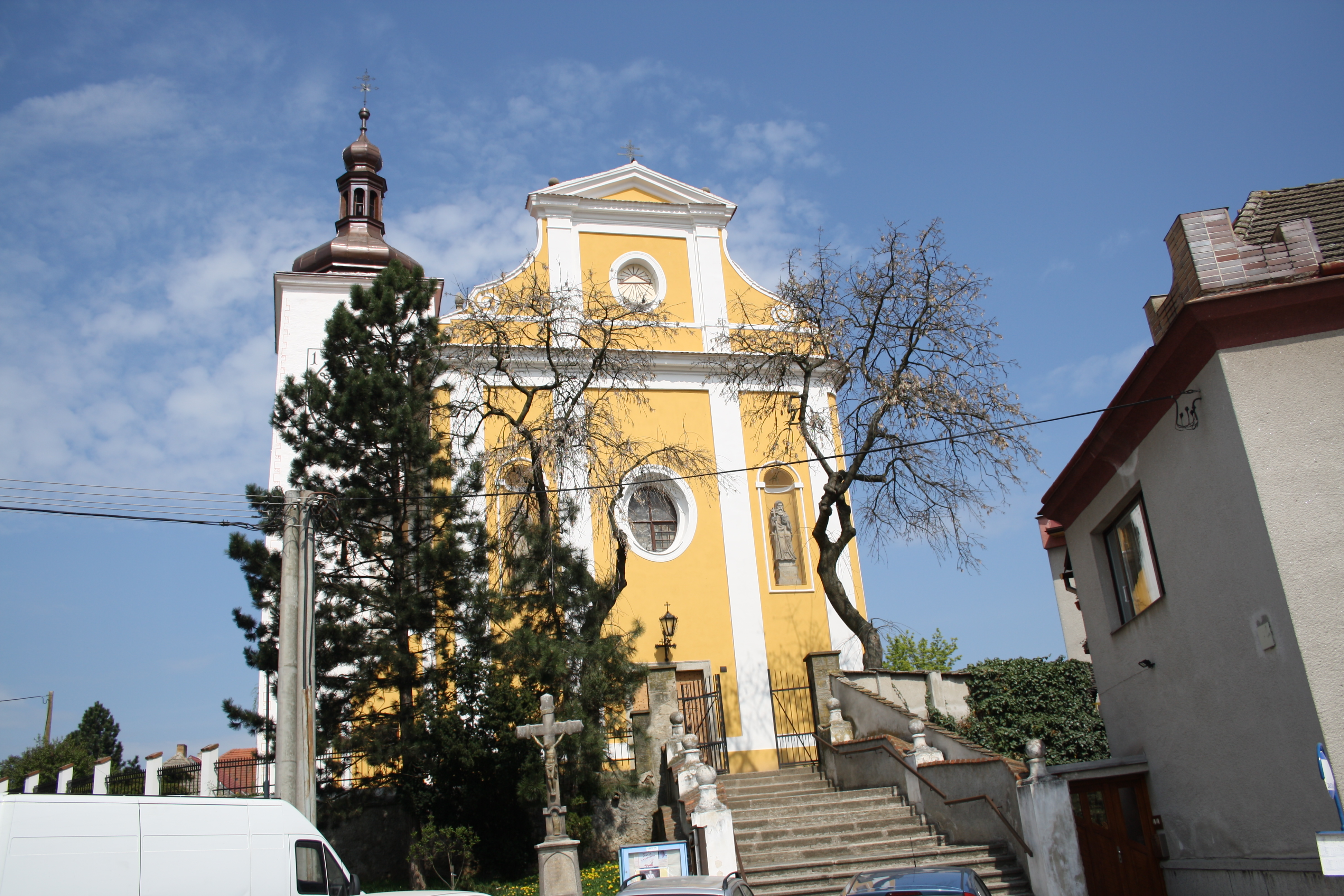 Church of saint Jacob older in Stařeč, Czech Republic.